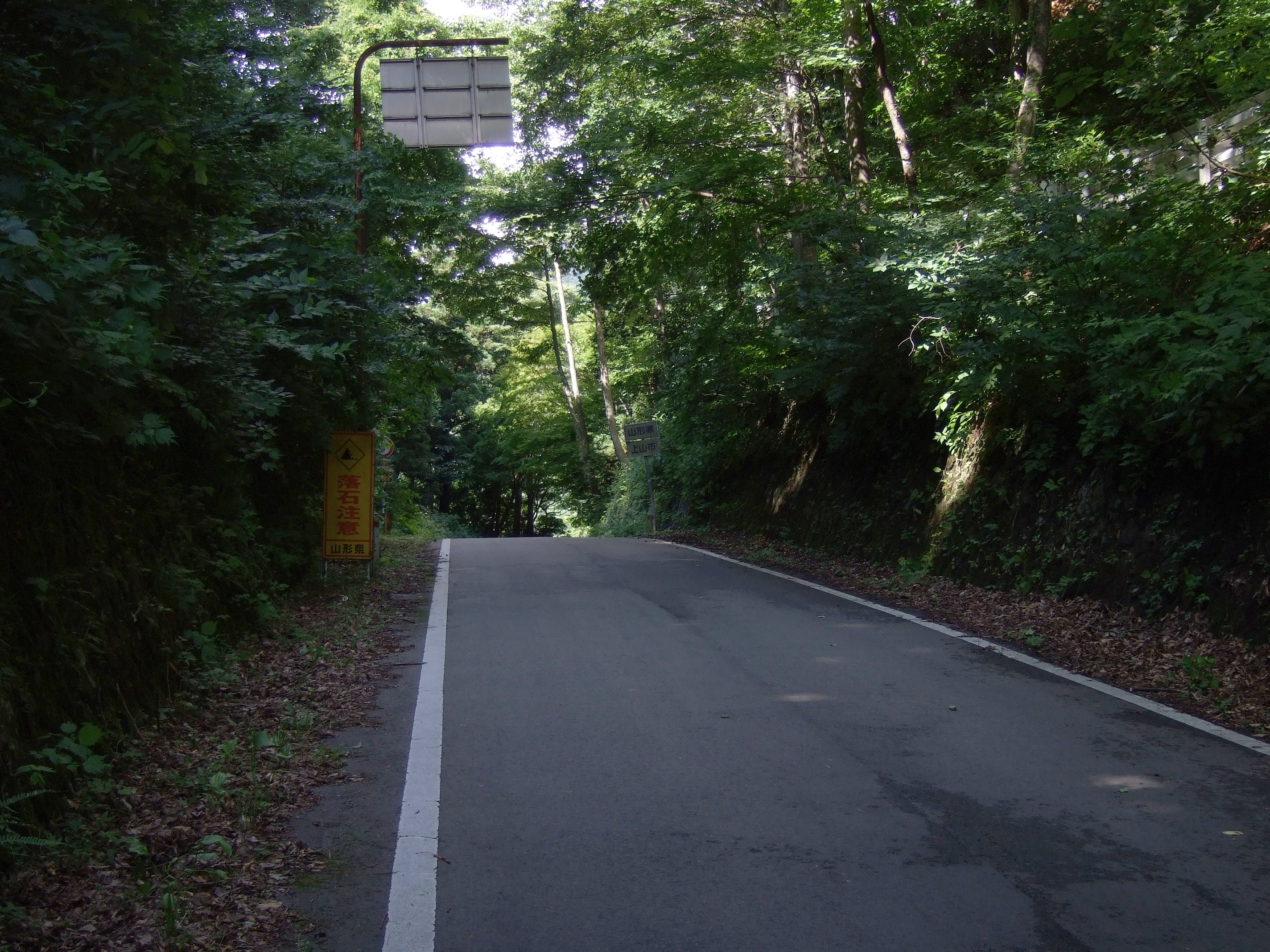 Kanayama-touge (pass), via Usyuu-kaidou, between Sitikasyuku, Katta, Miyagi and Kaminoyama, Yamagata in Japan.